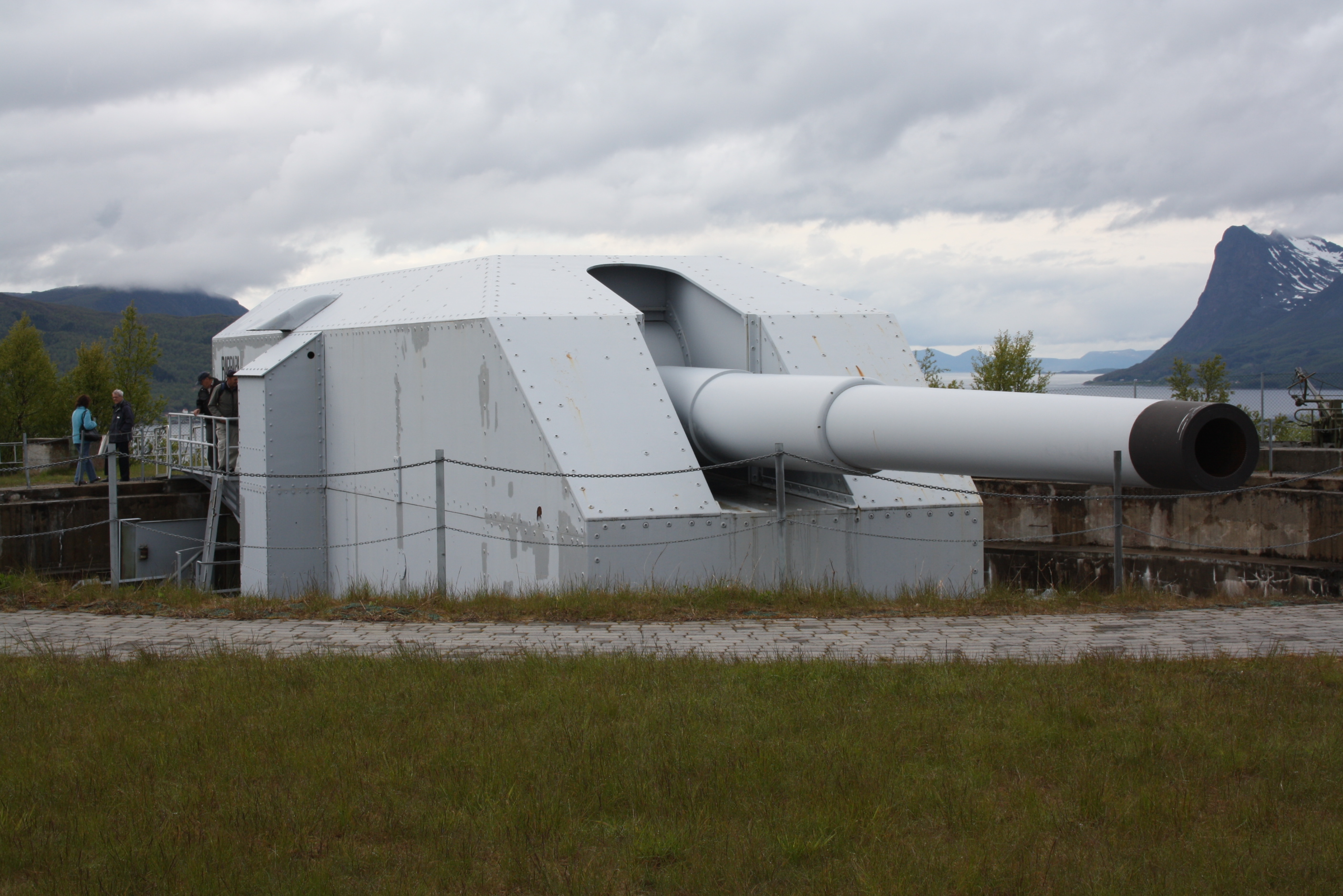 Turret No. 1 with the socalled Adolf gun of the 40.6 cm battery of Trondenes, Norway.